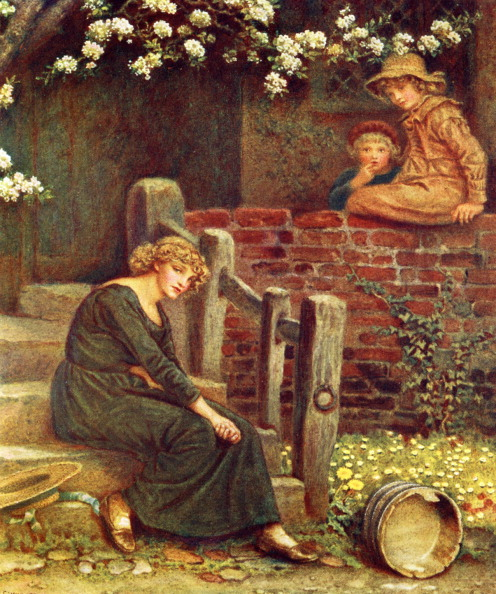 'The fable of the girl and her milk pail' by Kate Greenaway, painted in 1893 and now in a private collection.